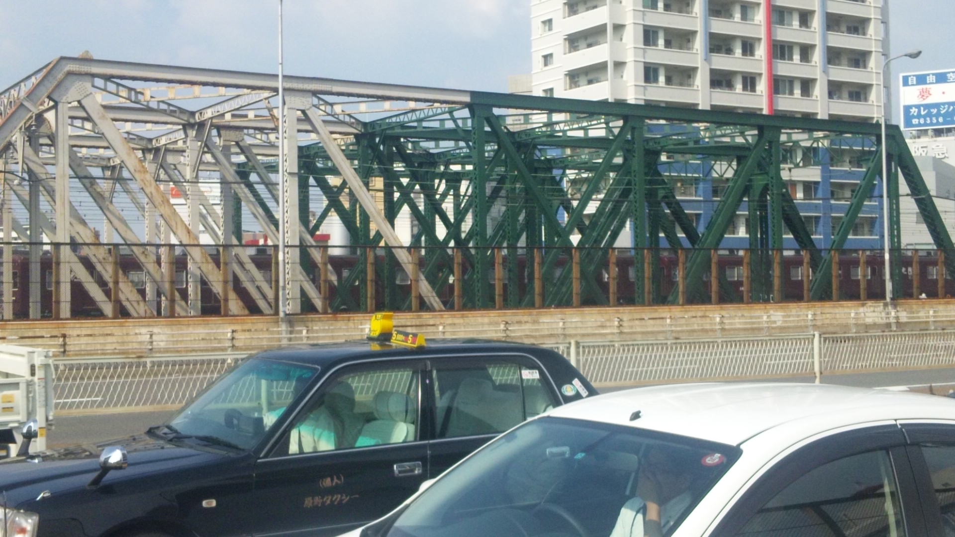 Half painted Nakatsu Overpass on the Hankyu Railway